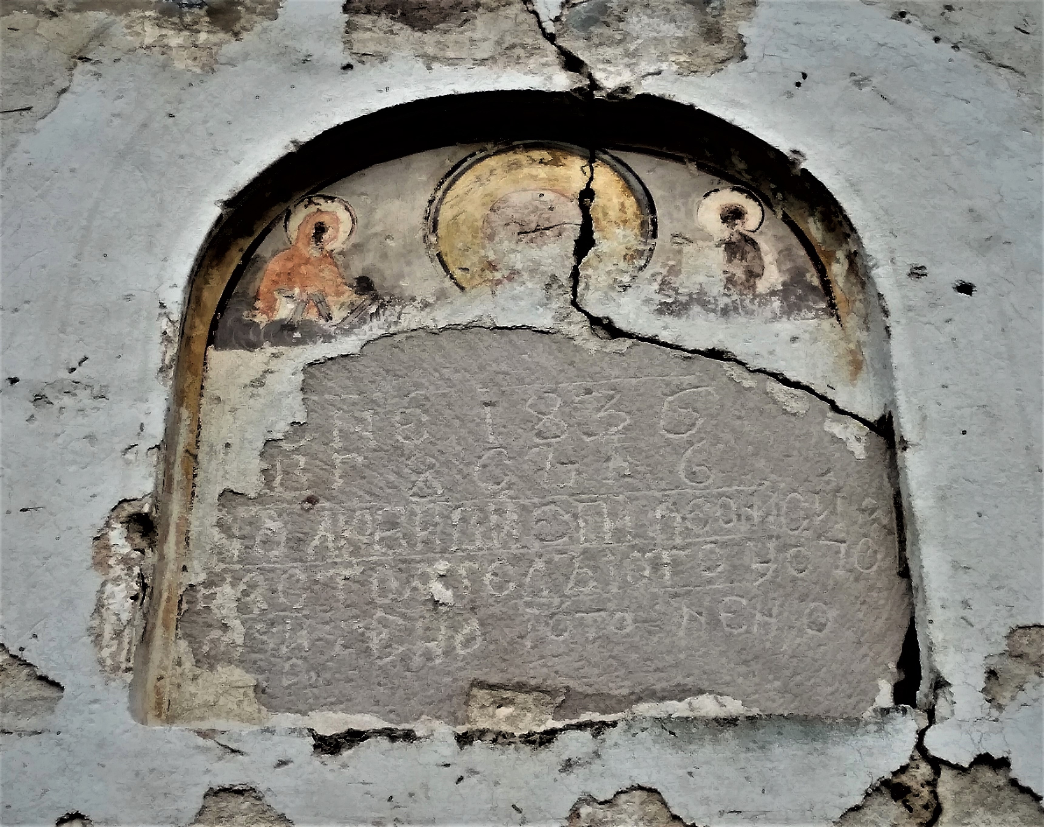 St. Nikolas Church in Glozhene, Lovech District, Bulgaria